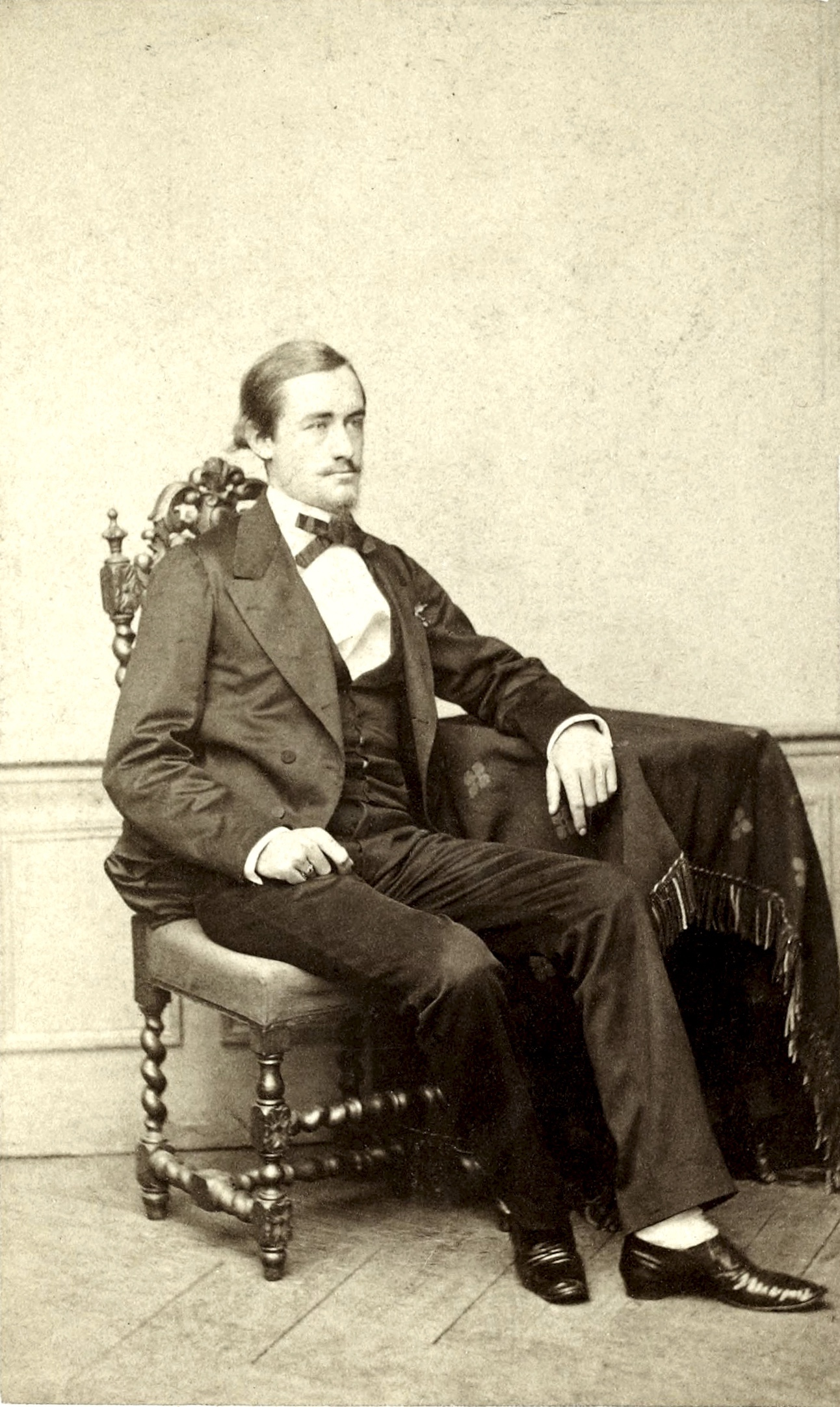 Henri Duveyrier (1840–1892) French explorer of the Sahara.